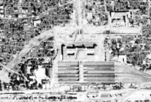 Subway Station of Beijing Railway Station in construction. Spatial tentatively corrected. 中文（中国大陆）: 建设中的地铁北京站。空间上尝试性矫正过。